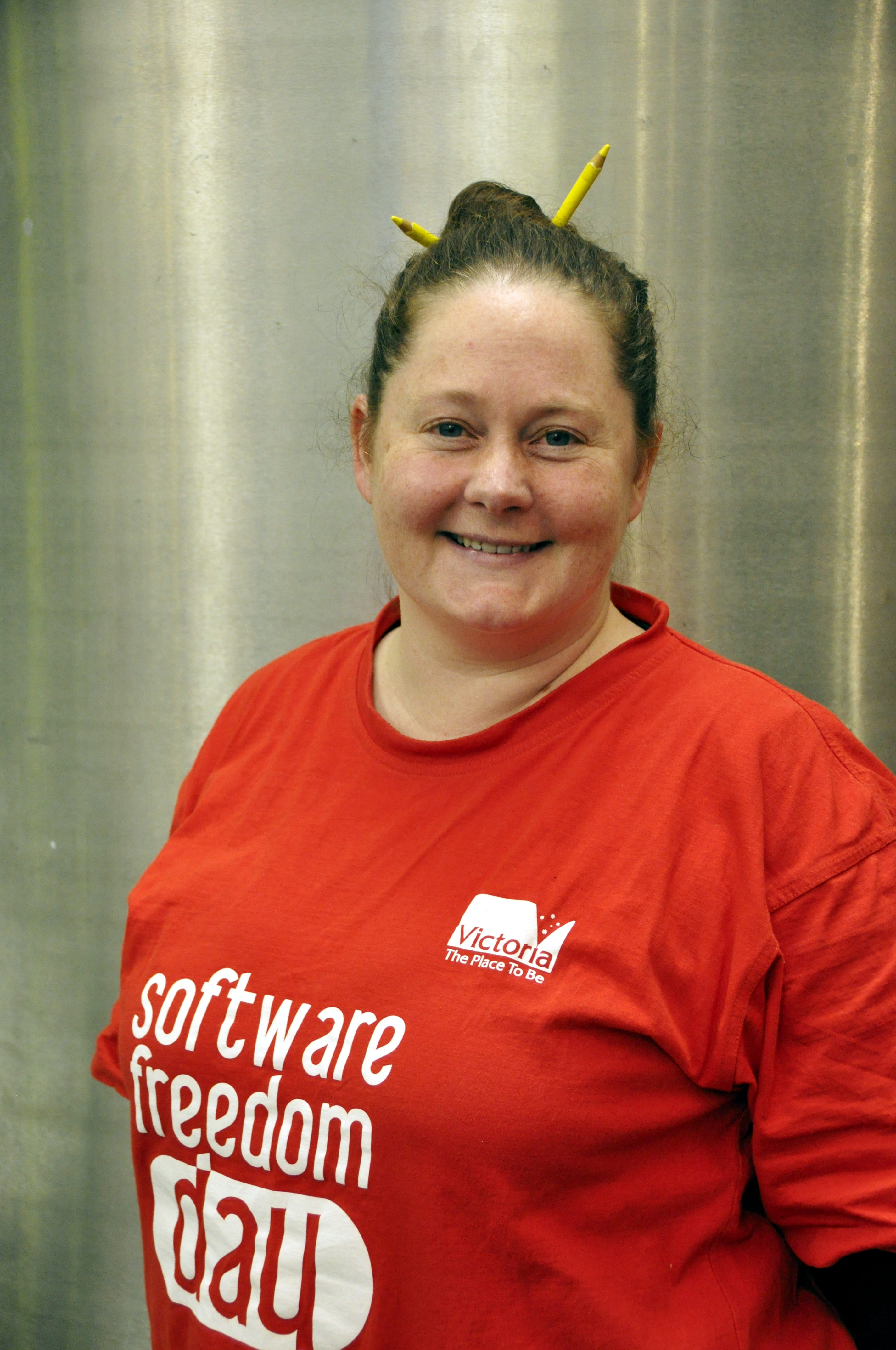 Donna Benjamin at Software Freedom Day Melbourne 2010 photo shoot.